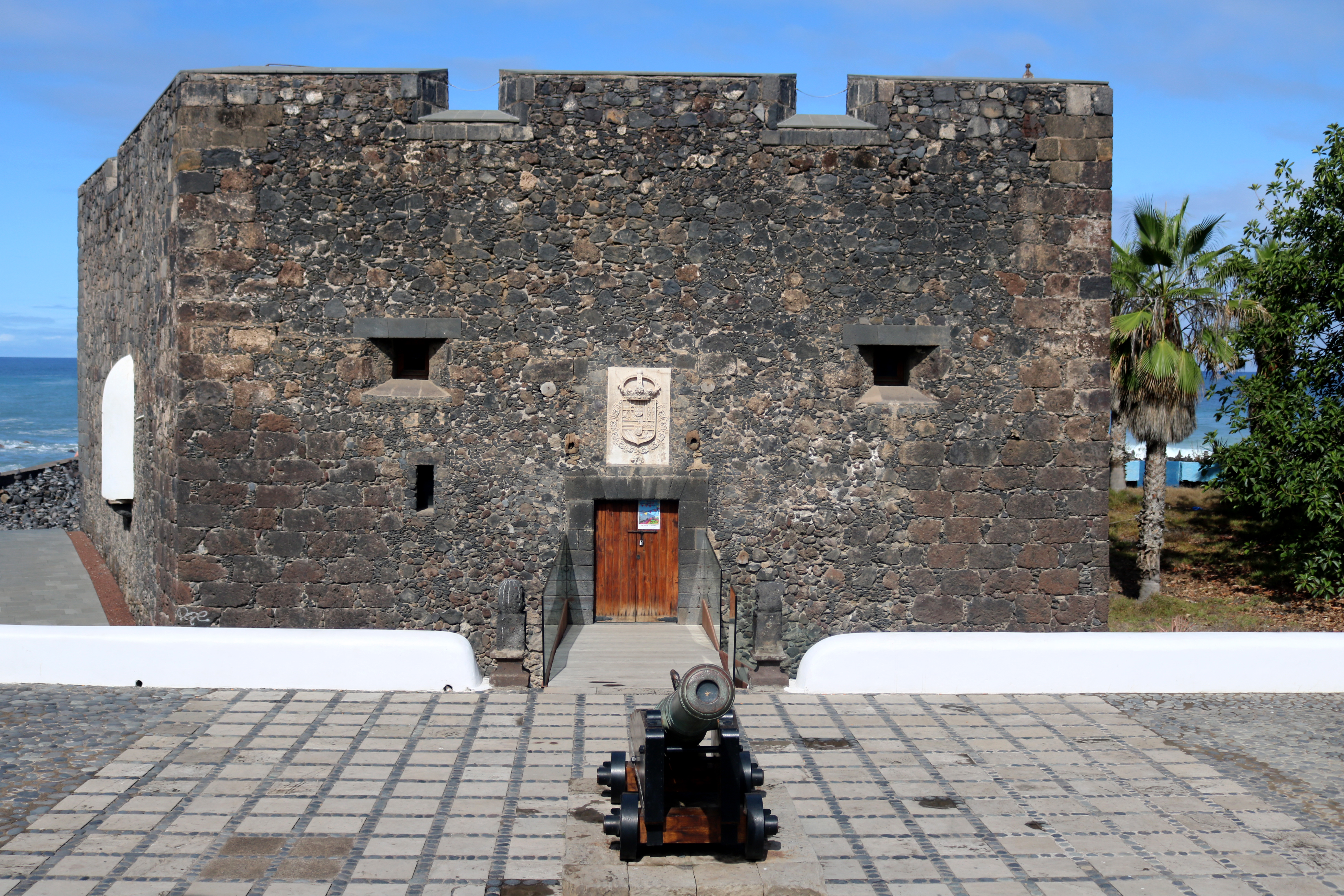 Fortress Castillo de San Felipe, in Puerto de la Cruz, Tenerife